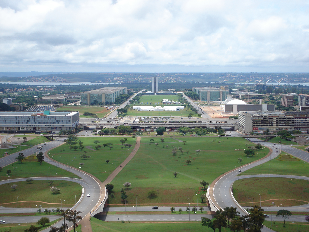 Photo of the downtown Brasília.